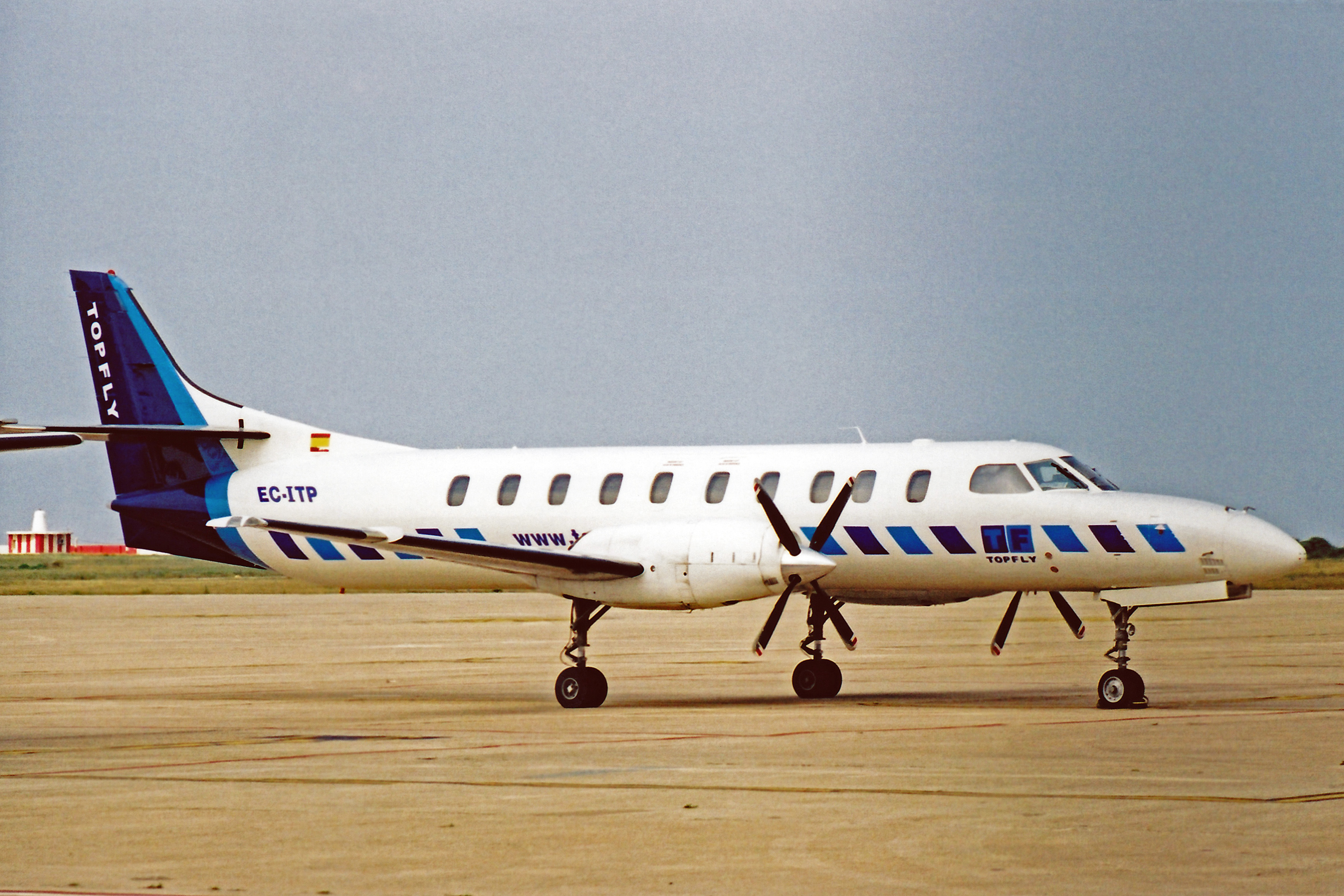 Another Mahon based freighter.